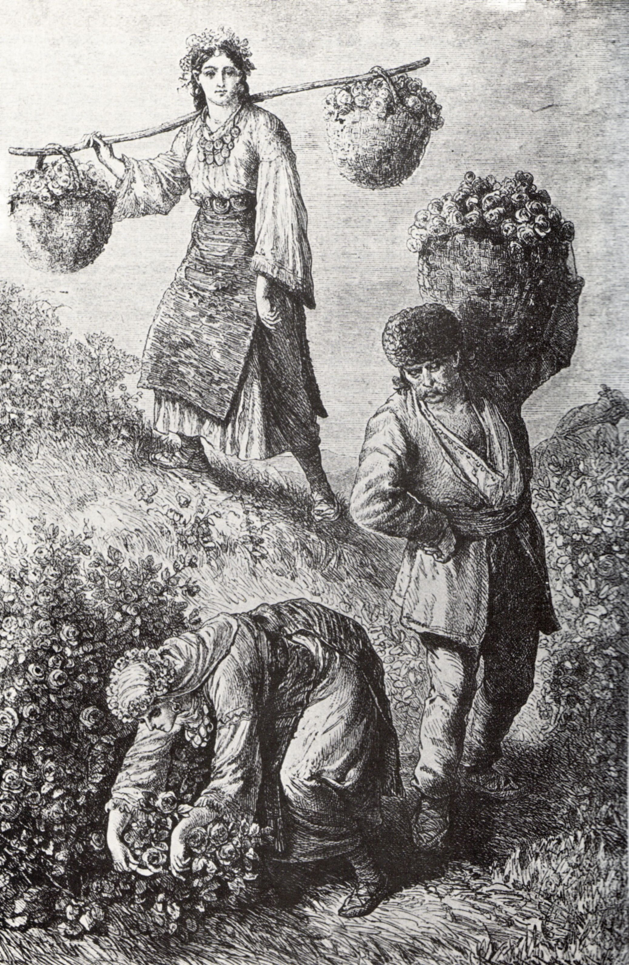 Rose-picking in the Rose valley near the town of Kazanlak in Bulgaria, 1870ies, engraving by an Austro-Hungarian traveller Felix Philipp Kanitz. Published in his book "Donau Bulgarien und der Balkan" ("Danubian Bulgaria and the Balkan"), Volume I, Leipzig, 1879, p. 238.